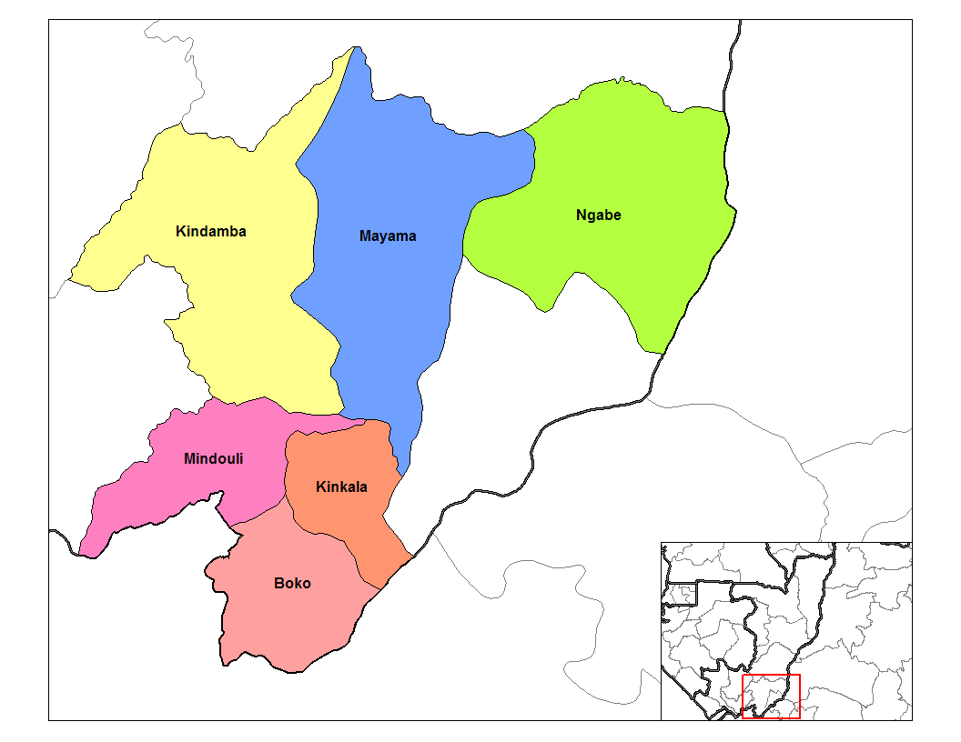 Map of the districts of Pool region in the Republic of the Congo. Created by Rarelibra 15:09, 12 September 2006 (UTC) for public domain use, using MapInfo Professional v8.5 and various mapping resources.